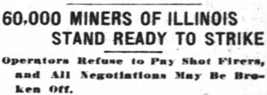 The Inter Ocean. 23 Apr 1908.